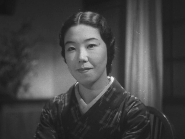 Kikuno Inagaki (as Nobuko Wakaba) in Kagiri naki hodo (限りなき舗道) directed by Mikio Naruse - 1934